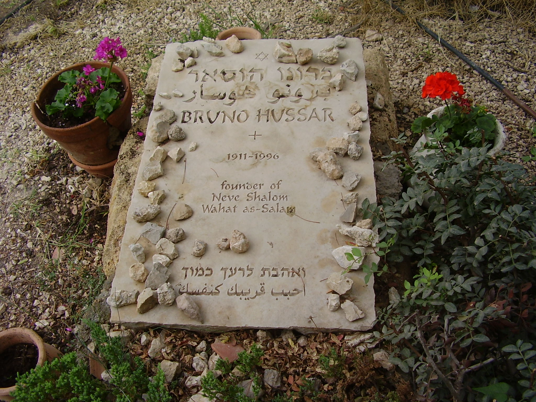 grave of bruno hussar, founder of neve shalom, in neve shalom, israel. We can read the biblical verse leviticus 19,18 in hebrew and in arabic "thou shalt love thy neighbour as thyself".